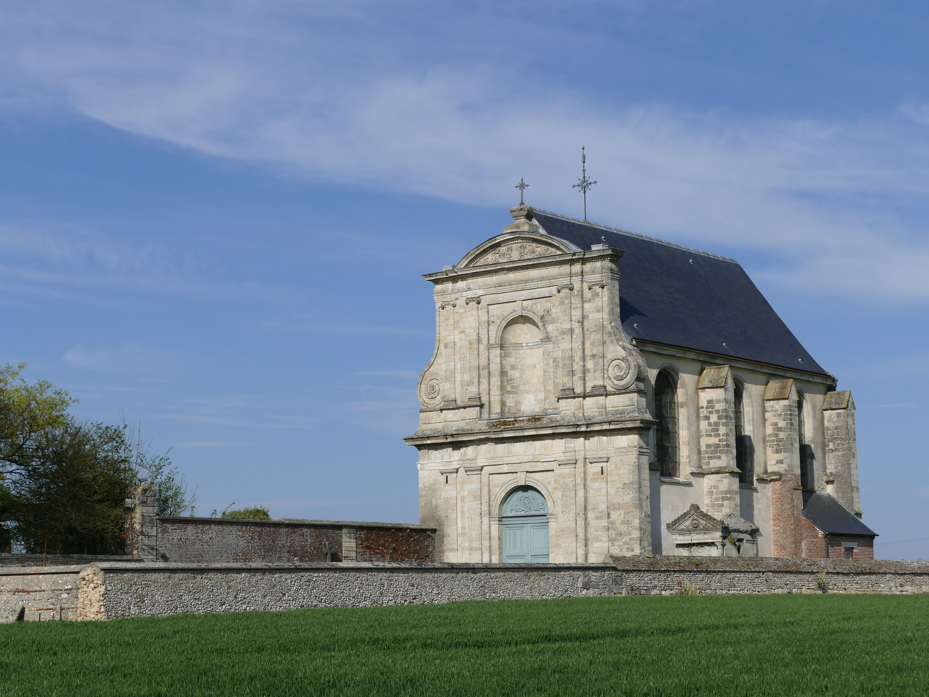 Our Lady's church in Ressons-l'Abbaye (Oise, Picardie, France).